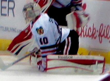 Toews clears pucks from the net.